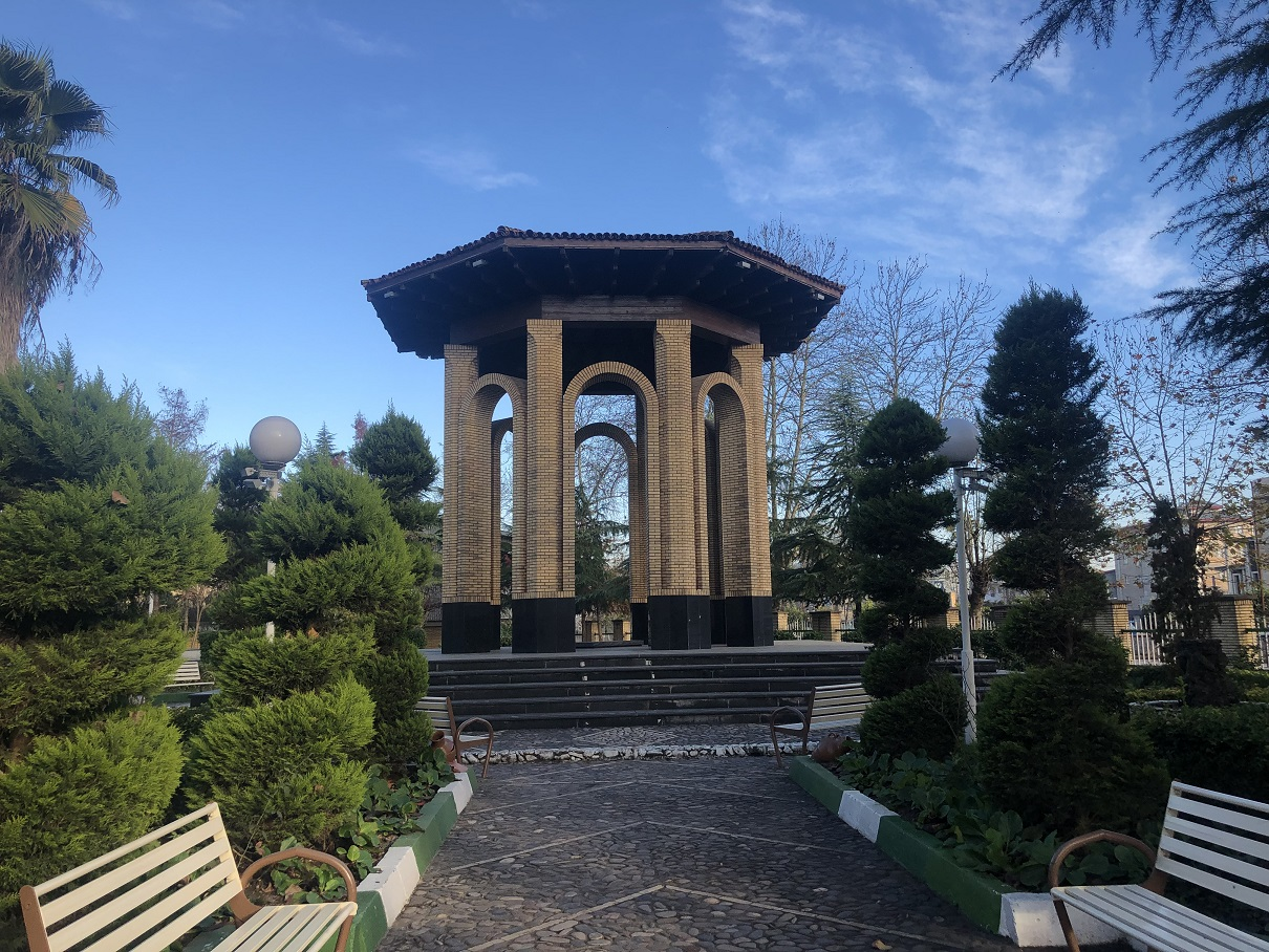 Mohammad Moin Tomb